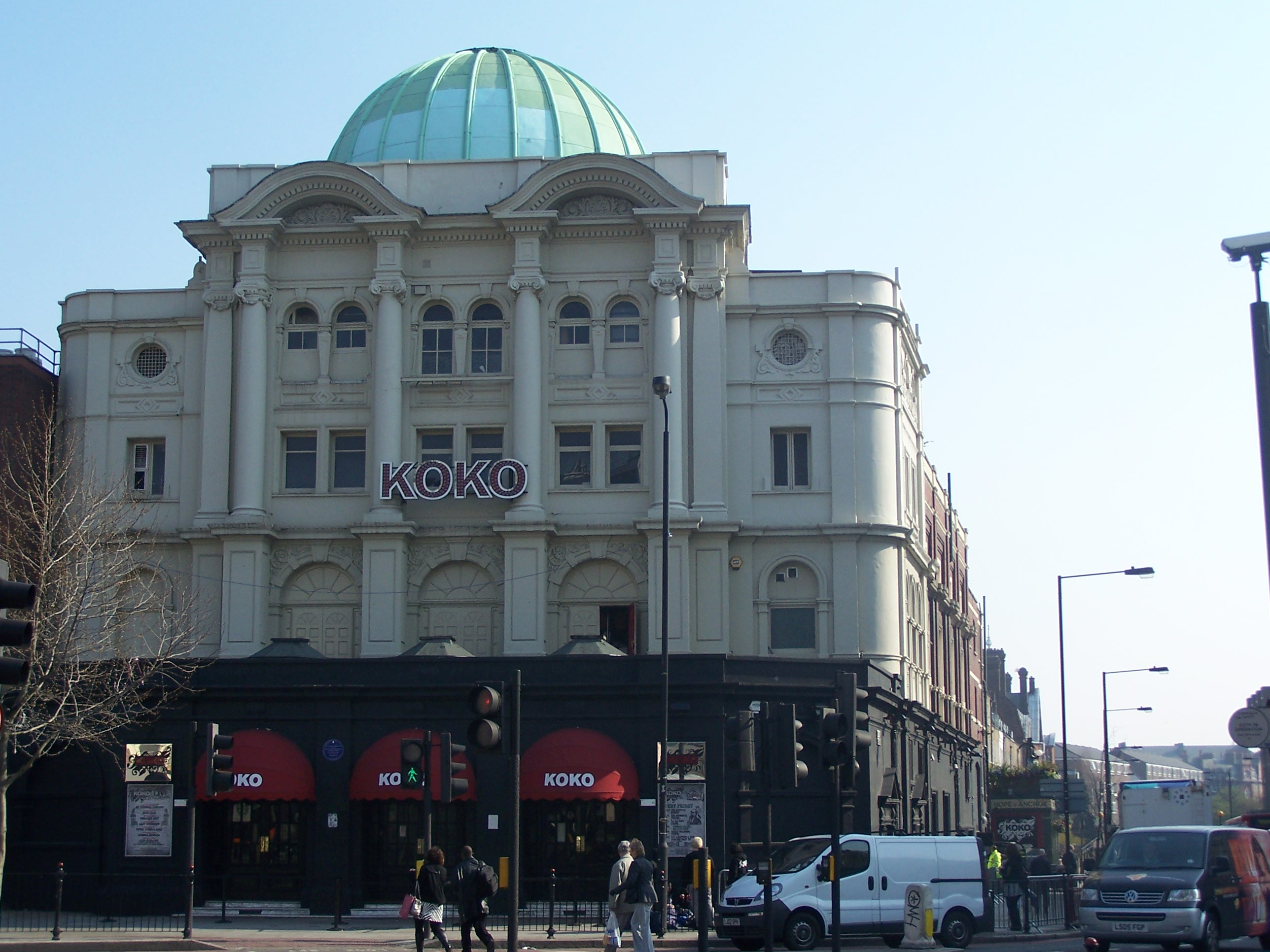 The Koko Club in London, pictured from Mornington Crescent Tube Station, 2007.